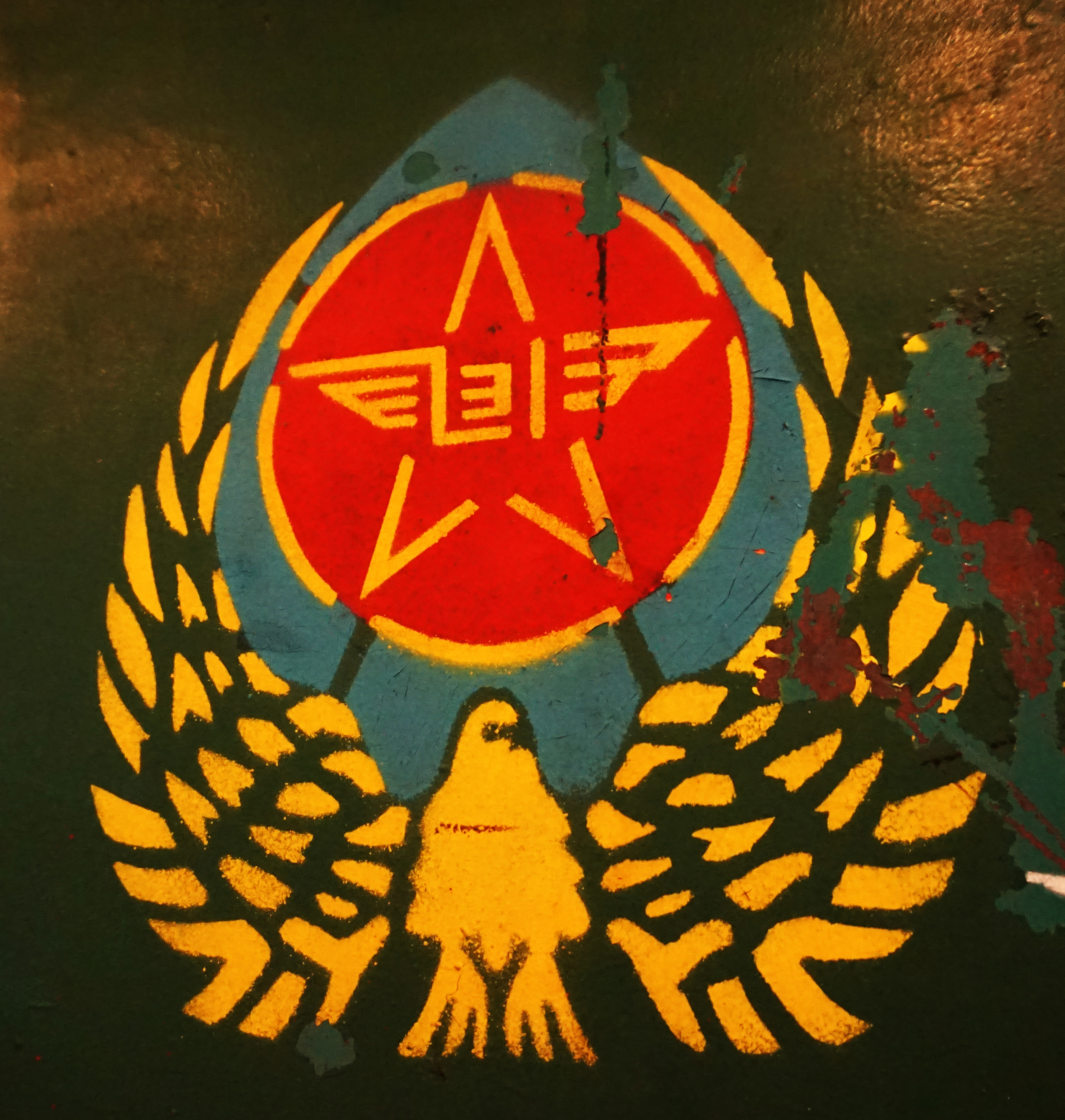 Logo of former China Post and Telecommunication.